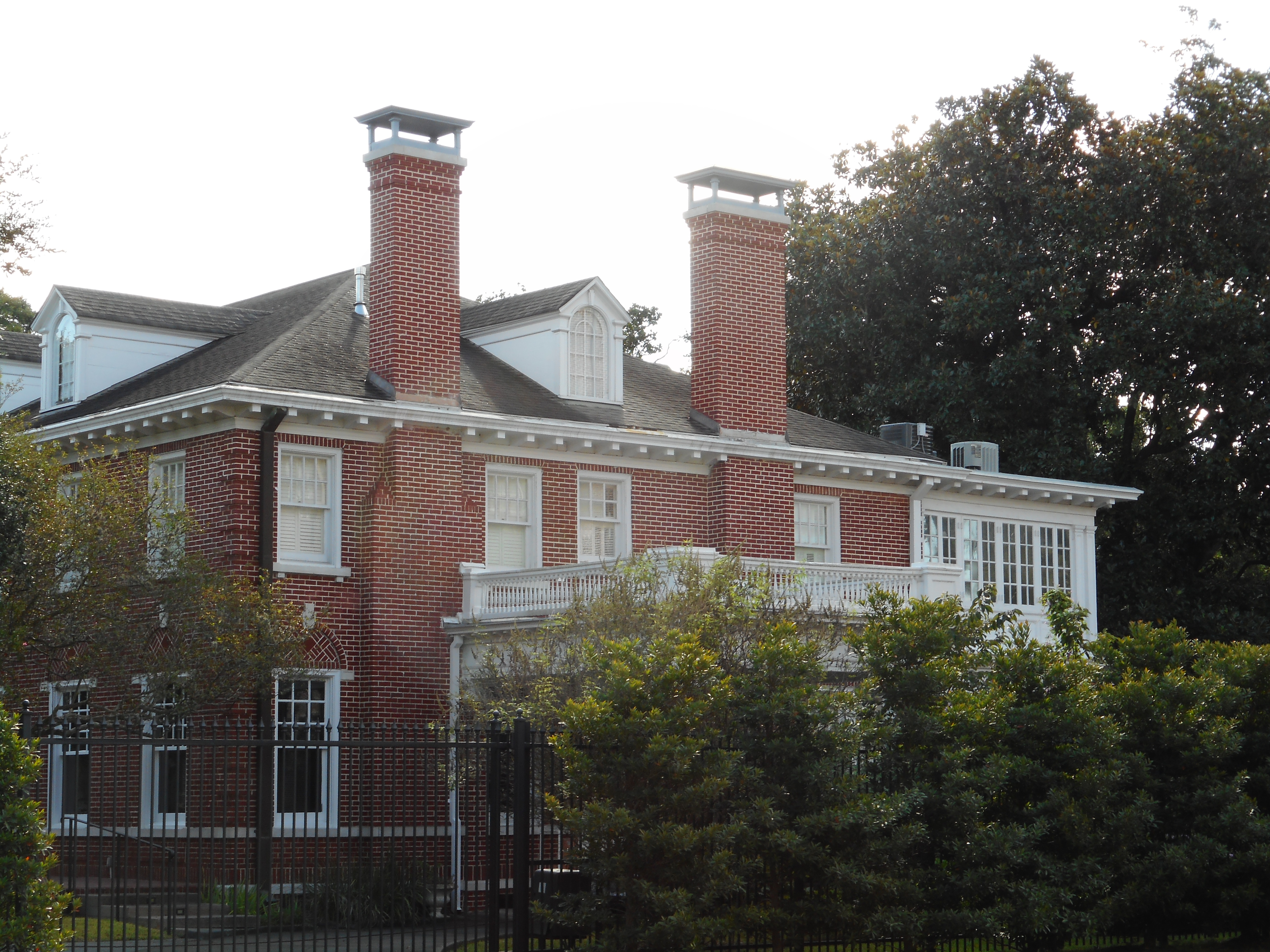 Nazro View from Lovett Blvd. of Underwood-Nazro House, Courtlandt Place, Houston (2018)